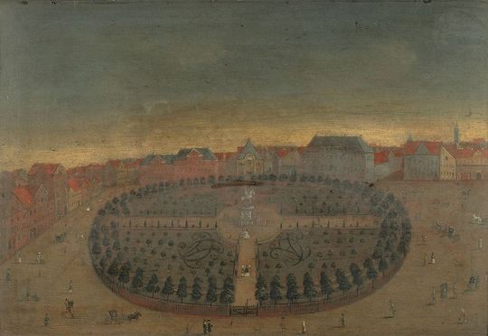 Kongens Nytorv in Copenhagen, the equestrian statue surrounded by the krensen harden complex. Copy from a painting by an unknown artist